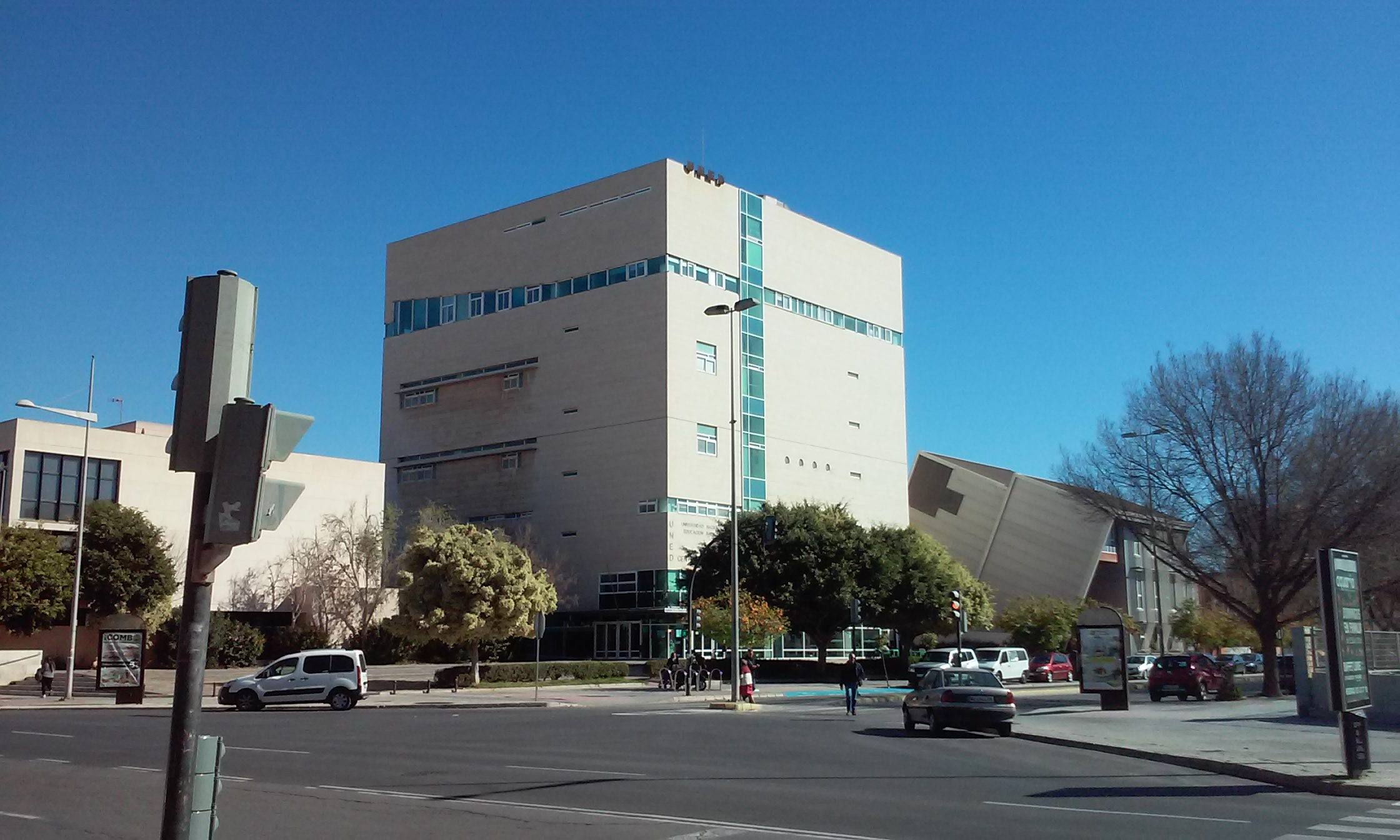 The building of the associated center of the National University of Distance Education (Universidad Nacional de Educación a Distancia, UNED) in the Spanish city of Cartagena (Region of Murcia). It was built in 1994 by architects Carlos Brugarolas Martínez, José Manuel Chacón Bulnes, Camilo Corbí Amat and Francisco Sola Sánchez, and his design won the Regional Award for Architecture in 1995.